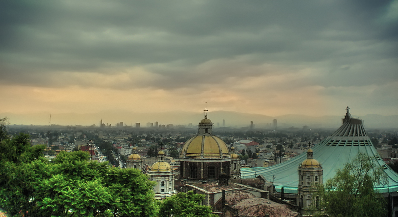 Basilica of Our Lady of Guadalupe — and view of Mexico City. Left: the old basilica. Right: the new basilica.